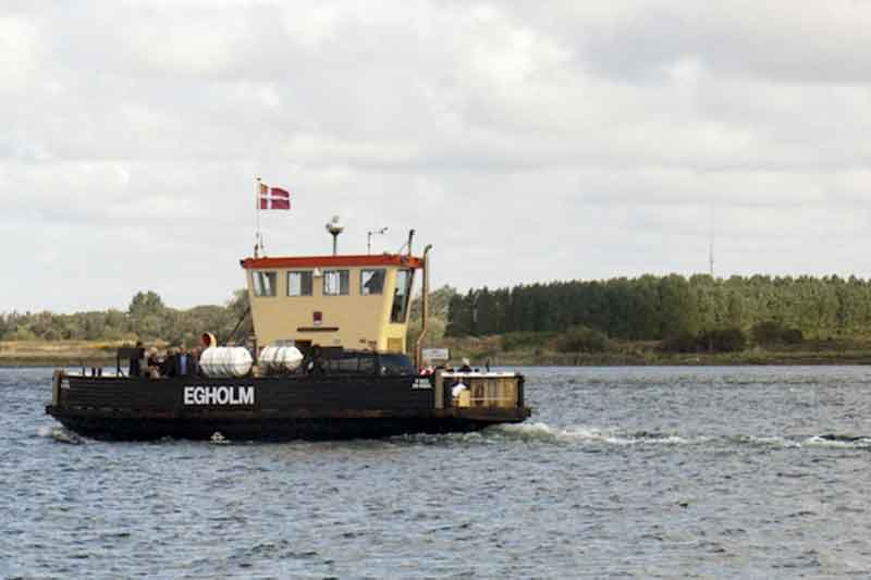 Egholm, danish ferry pendling between Aalborg and the isle Egholm